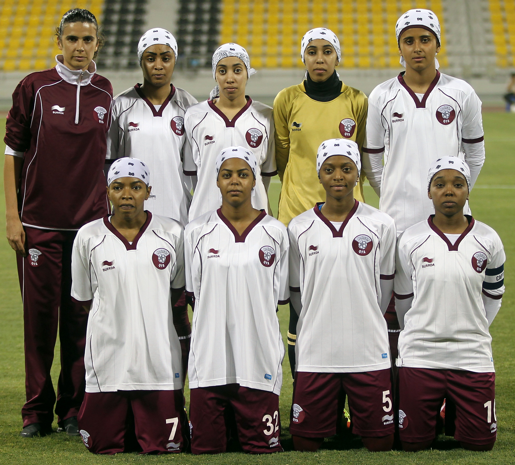 Members of the Qatar women's football team line up prior to their friendly game against Kuwait. Picture by Mohan